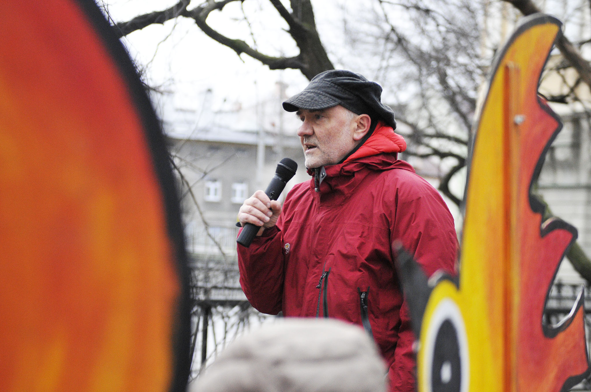 Jacek Bozek, Klub Gaja, People's Climate March 2015, Bielsko-Biala, Poland